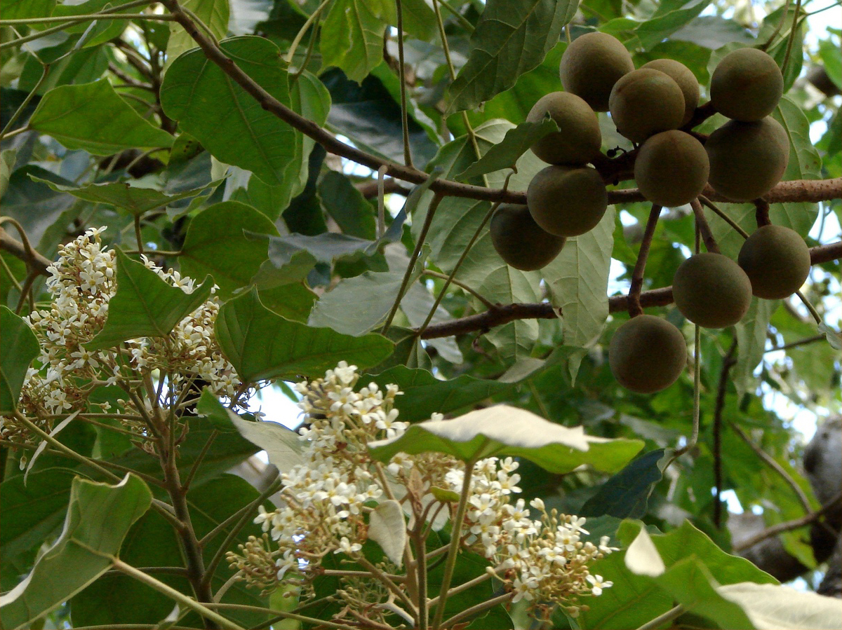 Aleurites rockinghamensis. Enormous tree, no way I could fit it in my viewer. It gives so much shade, and lots of these hard ball-fruits on the ground. I managed to get fruit AND flowers of this tree in the frame! (typical tropical - all seasons at once). The fruit of this plant were used as candles by early settlers, hence its common name Candle Nut (info from bellingen1 photo). Native to NE QLD Australia and to New Guinea. Location: Mt. Coot-tha Botanical Gardens (near Dome), Brisbane, Australia